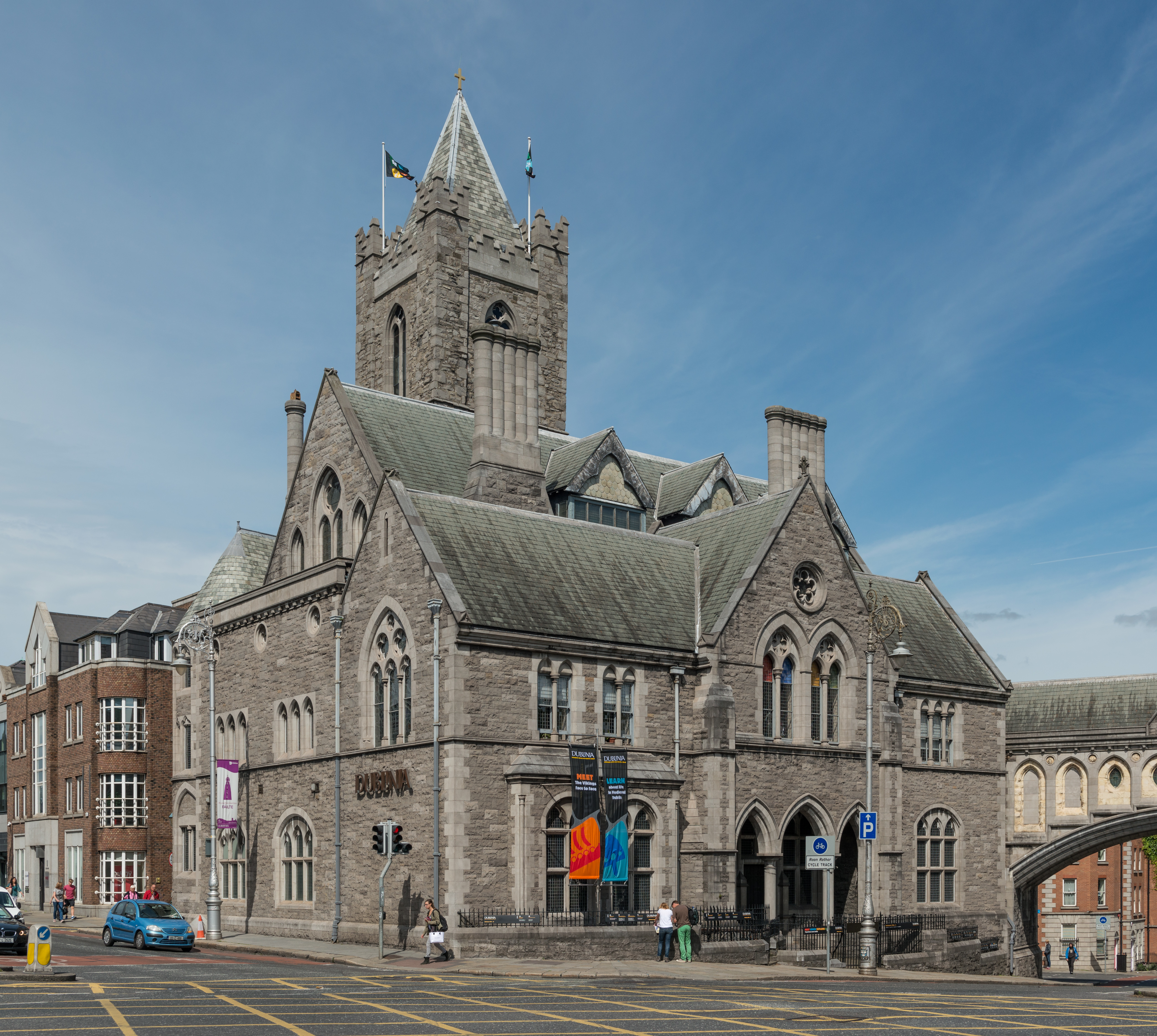 A southeast view of Synod Hall, Dublin